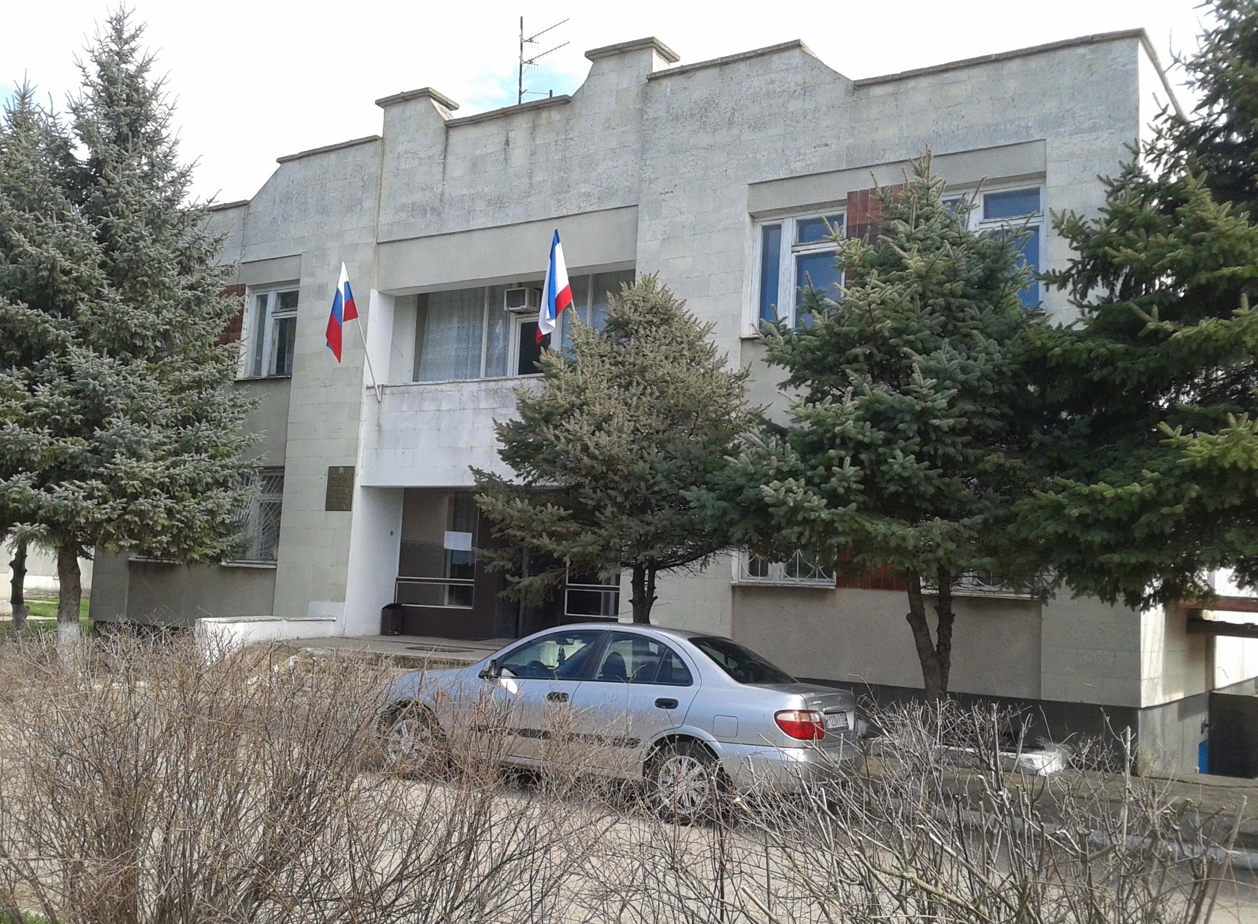 Village Medvedevka, Dzhankoysky district, Crimea